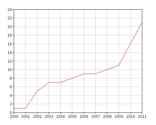 Created using ChartGo: Data obtained from World Bank